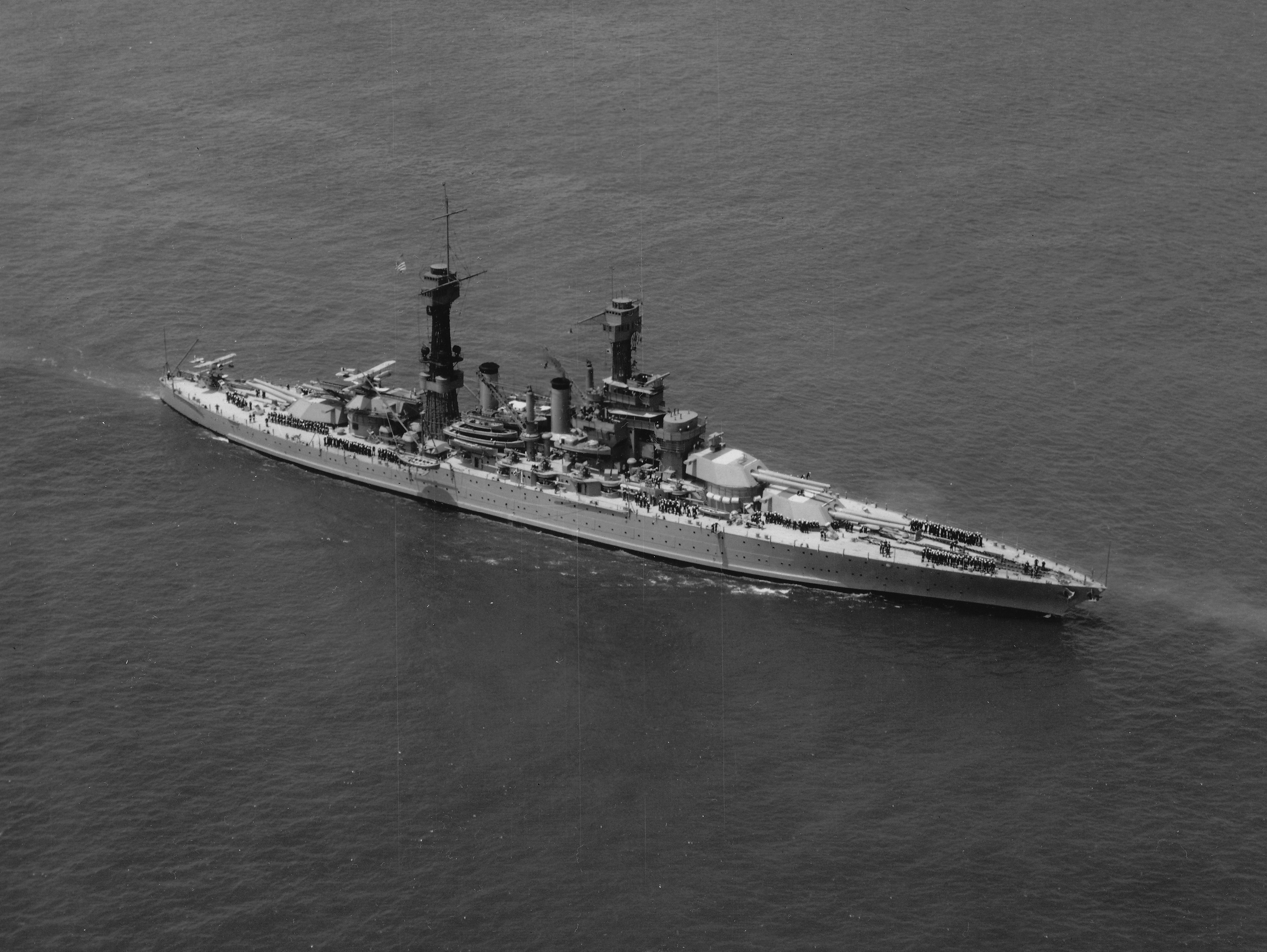 Aerial view of the U.S. Navy battleship USS West Virginia (BB-48) during a presidential naval review in Hampton Roads, Virginia (USA), on 4 June 1927.